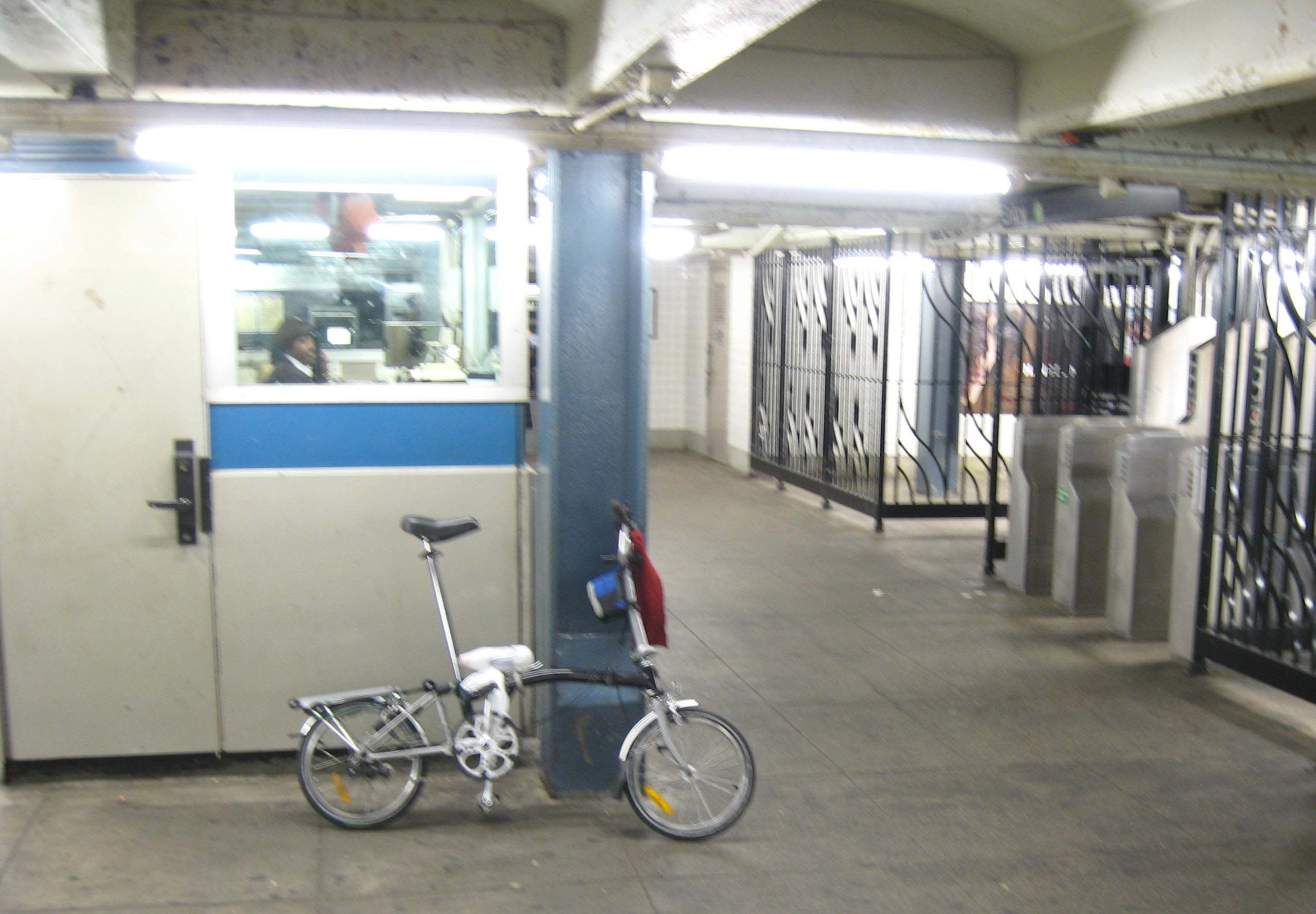 Looking east at Classon Avenue (IND Crosstown Line) token booth from near the northwestern stair